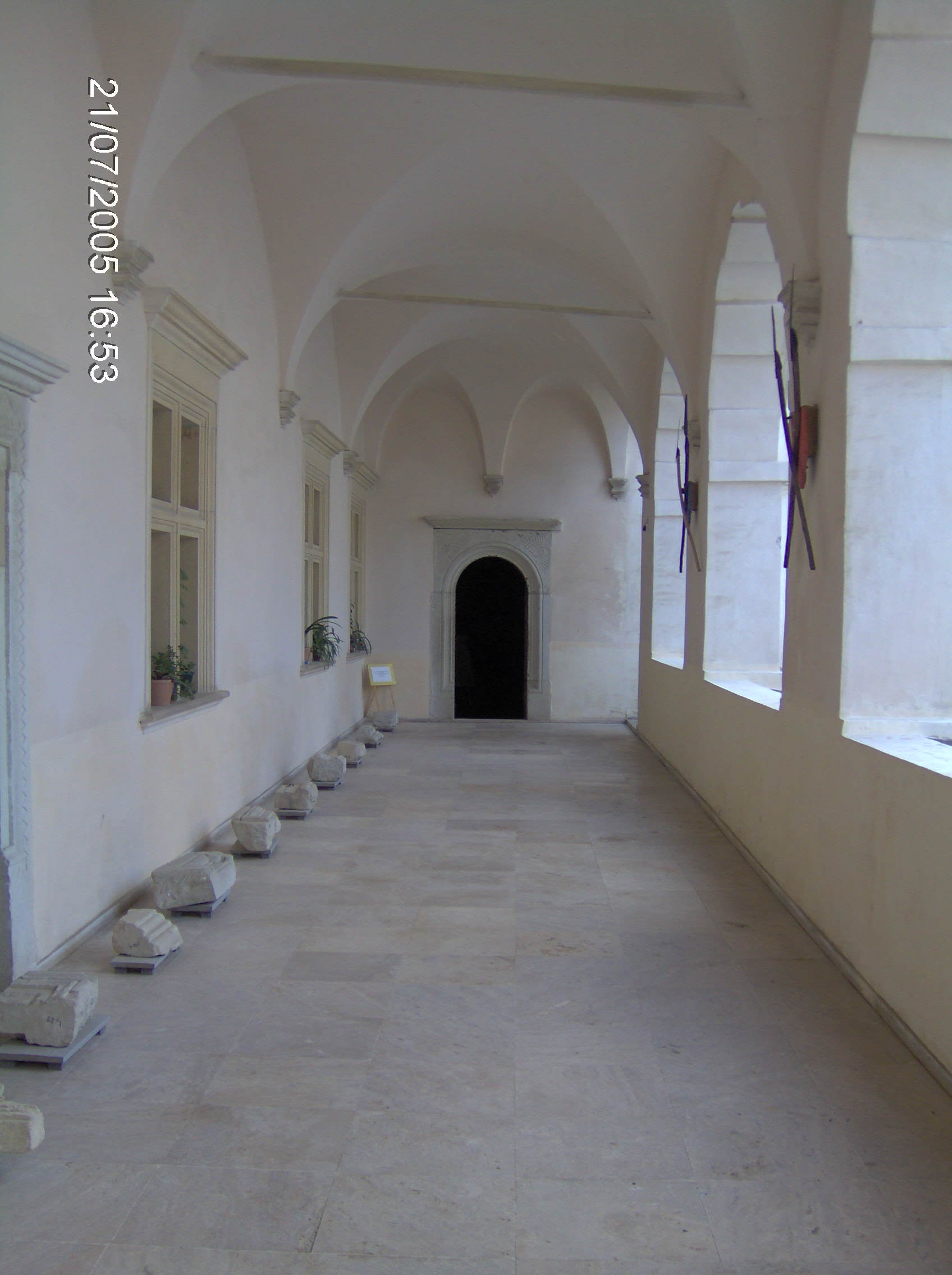 late 16th century loggia in the Făgăraș (Fogaras) castle (the most probable builder was Boldizsár Báthori, captain of Făgăraș District in the 1580s)